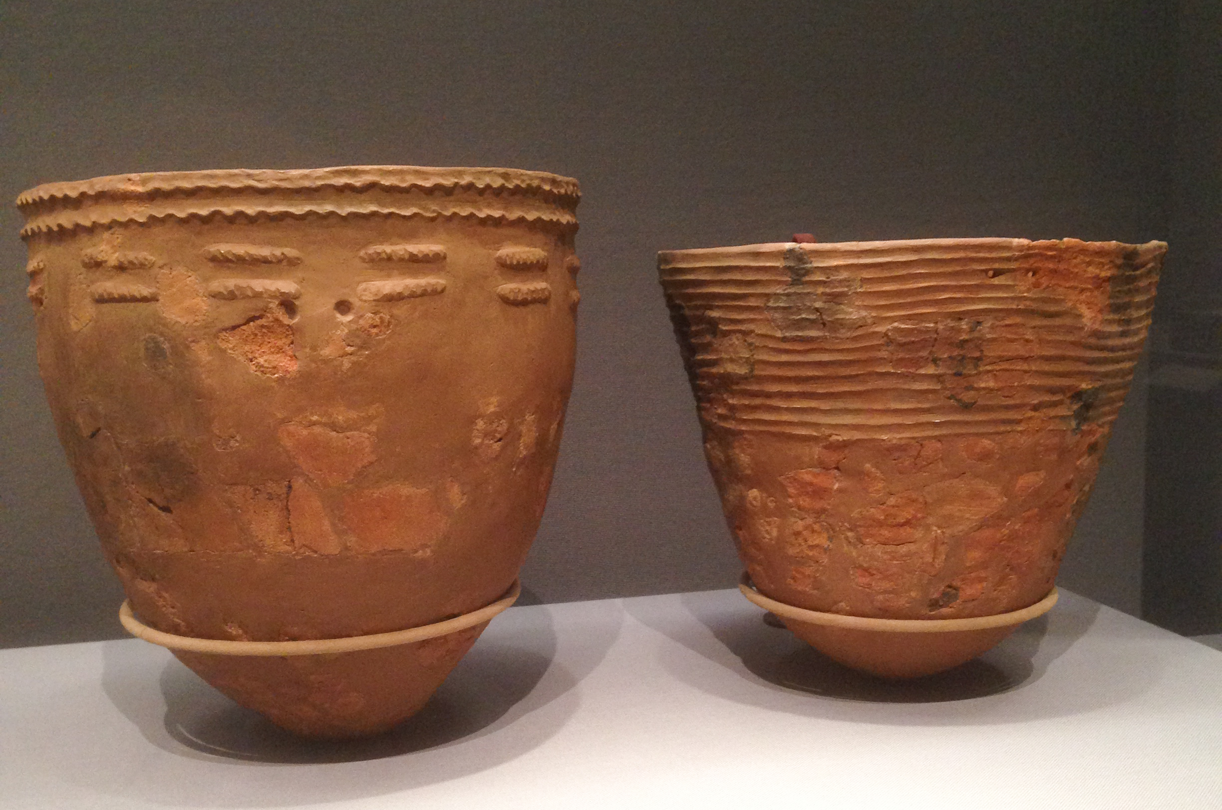 Deep Bowls. Incipient Jomon (11 000 - 7 000 BCE ). From Hinamiyama site at Yokohama-shi, Kanagawa. Lent by Yokohama City Board of Education, Kanagawa. Tokyo National Museum